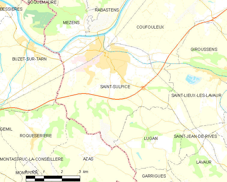 Map of French municipality Saint-Sulpice